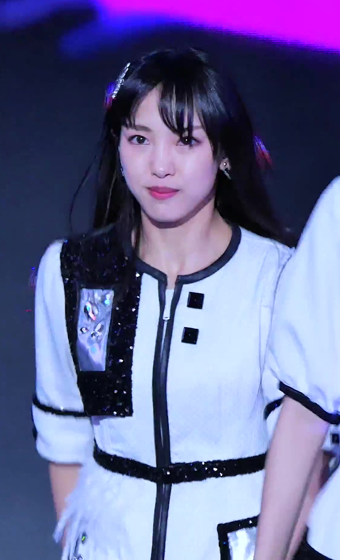 161006 AMN 빅 콘서트 - 마키노 마리아 모닝구무스메 메들리 직캠